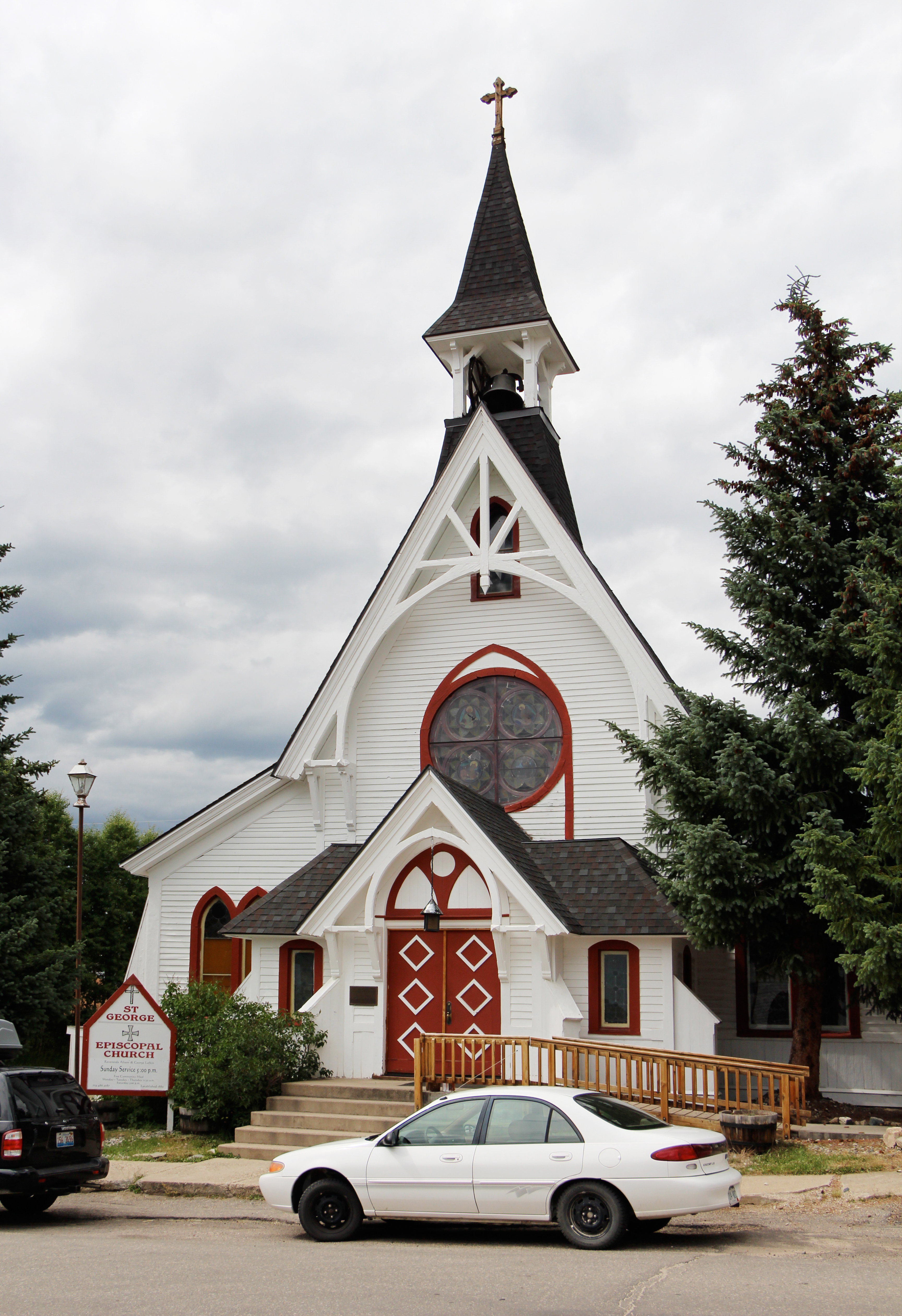 St. George's Church, 4th and Pine, Leadville, CO